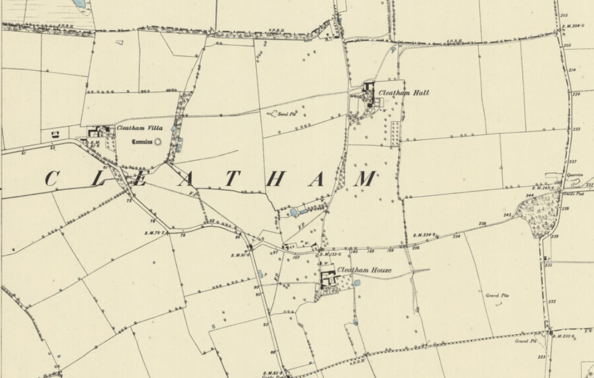 Ordnance Map of Cleatham, Lincolnshire 1885